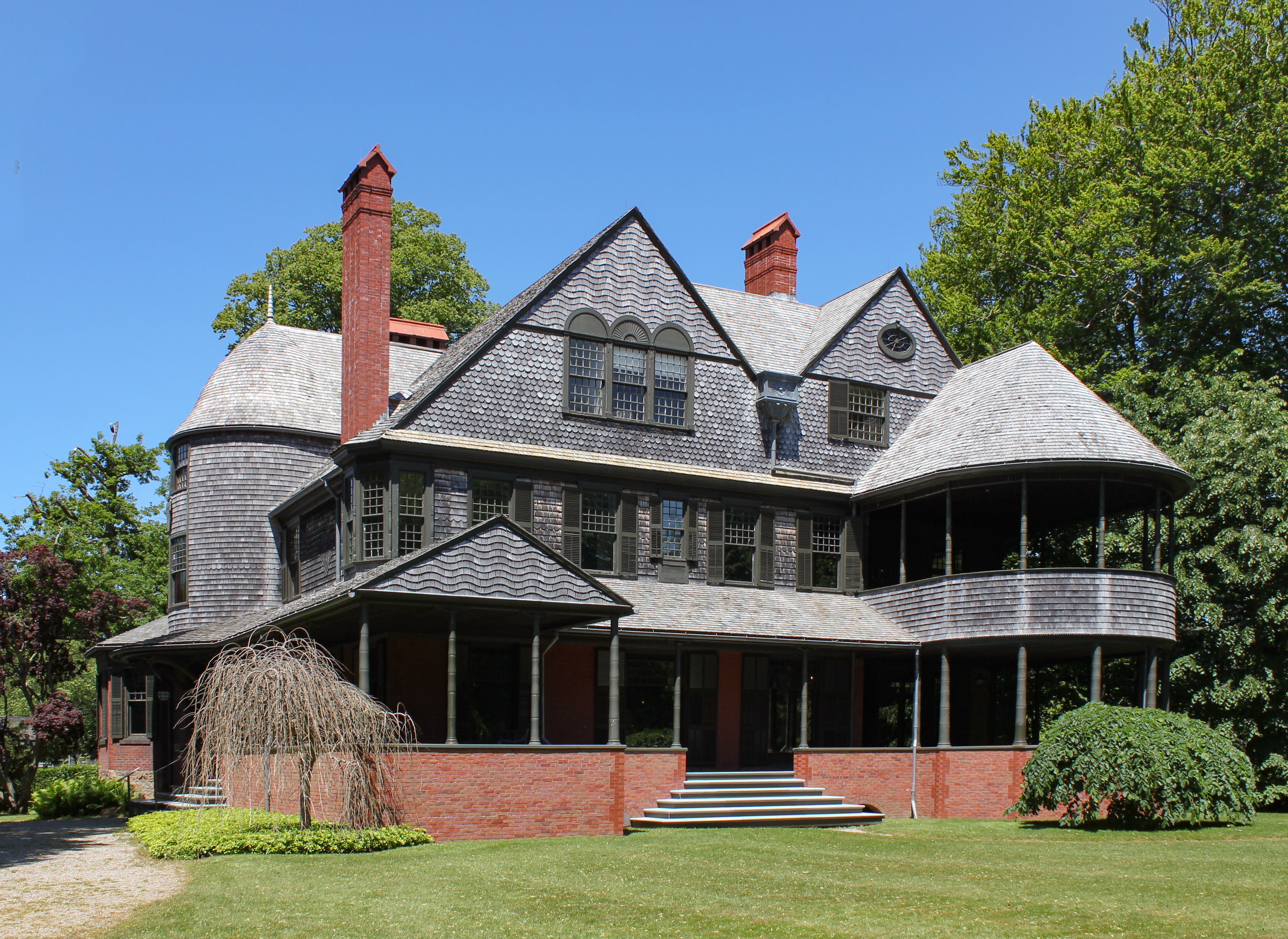 The Isaac Bell House in Newport, RI, on June 14, 2018